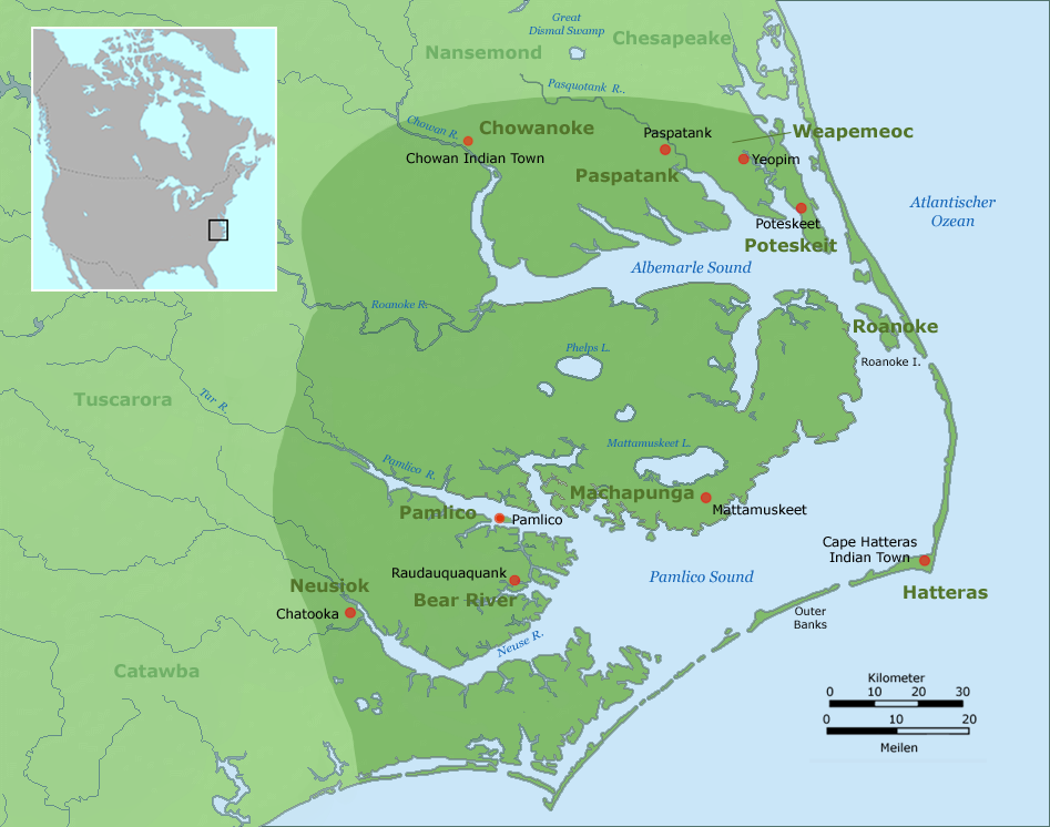 Tribal territories of the North Carolina Algonquins, 1657-1795